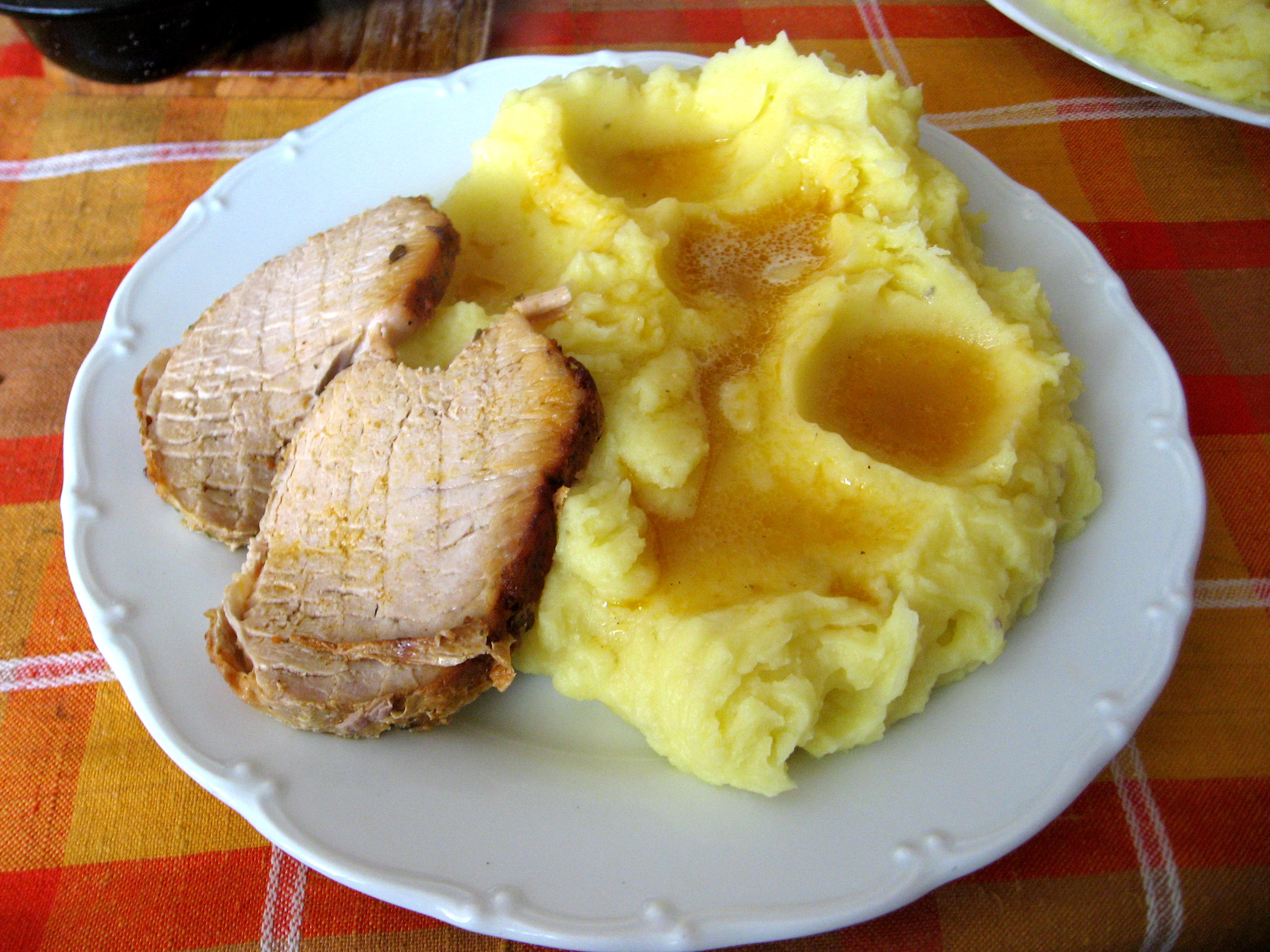 Roast pork, mashed potatoes